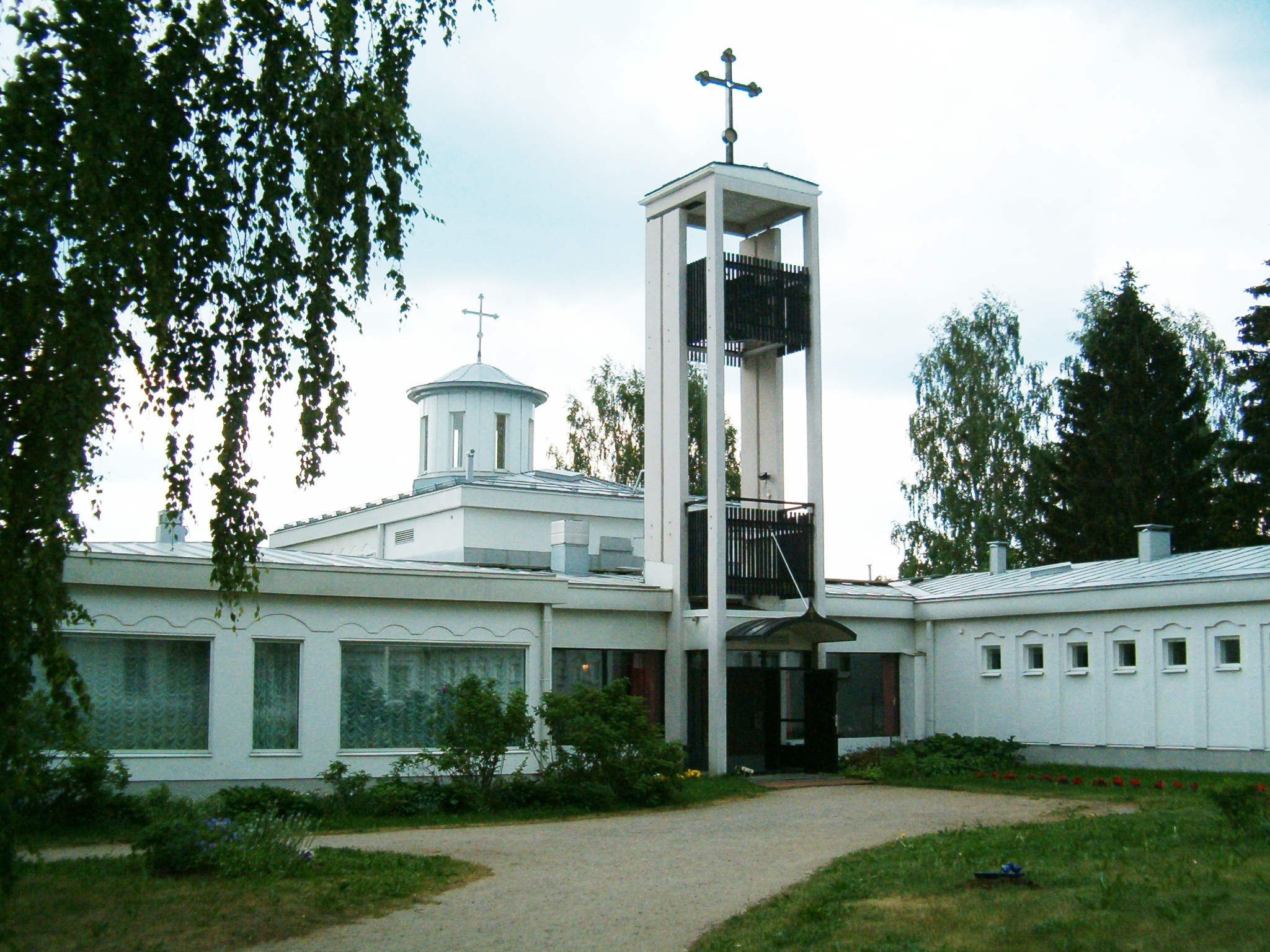 The Church of Lintula orthodox convent in Heinävesi, Finland.